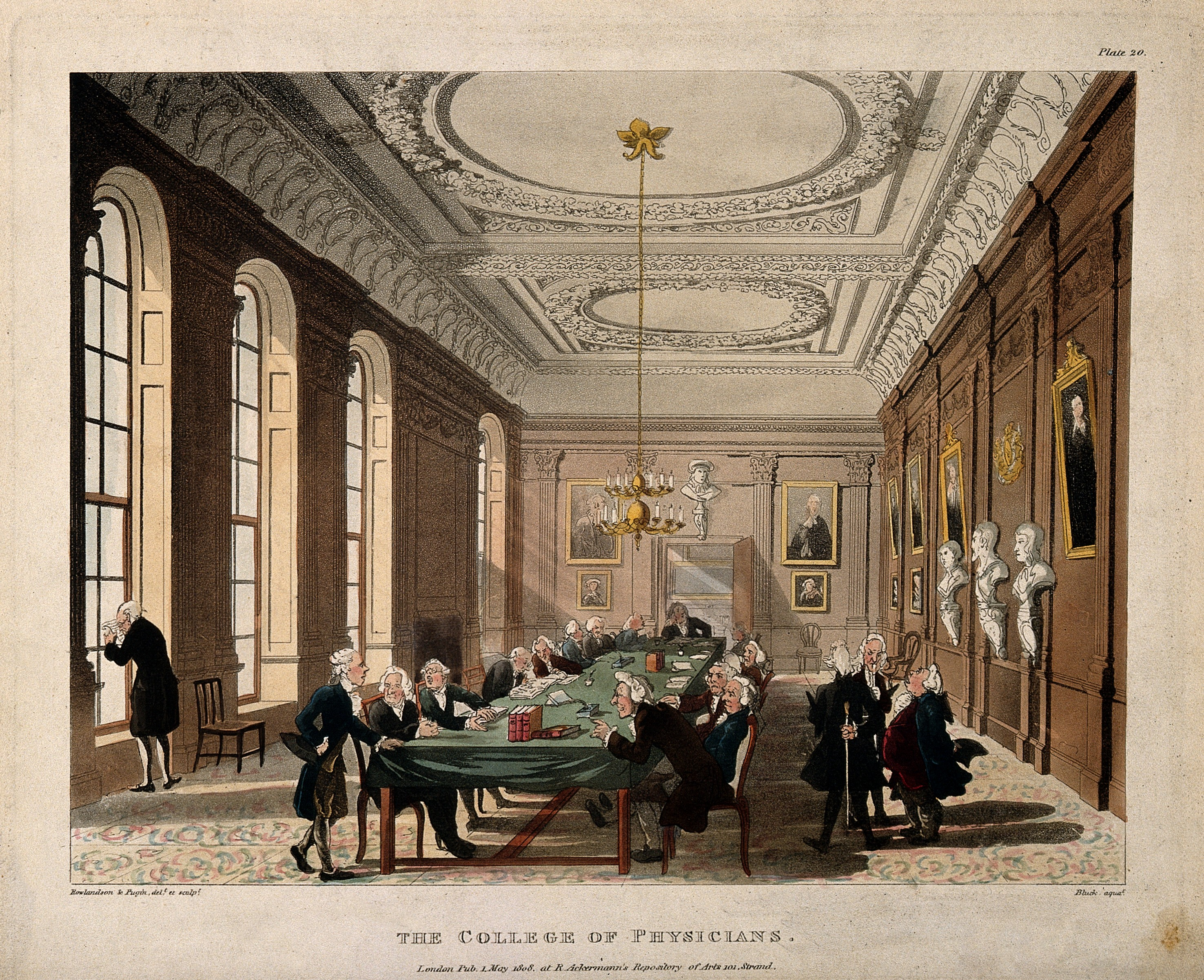 Royal College of Physicians, Warwick Lane, London: the interior of the Hall, during the examination of a candidate. Coloured aquatint by J. Bluck after T. Rowlandson and A. C. Pugin, 1808. Iconographic Collections Keywords: Royal College of Physicians of London; Augustus Charles Pugin; J. Bluck; Thomas Rowlandson; rowlandson; royal college of physicians